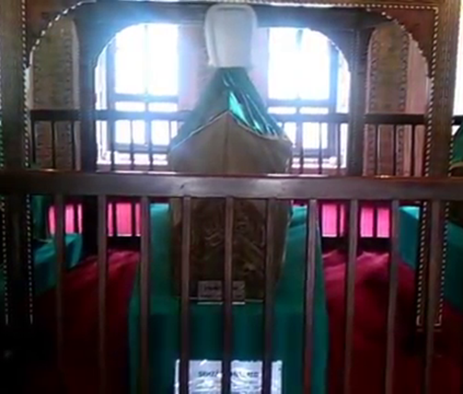 Image of the tomb of ottoman prince Şehzade Mehmed